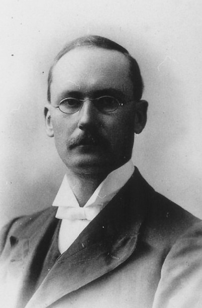 D.F. Malan as young Minister